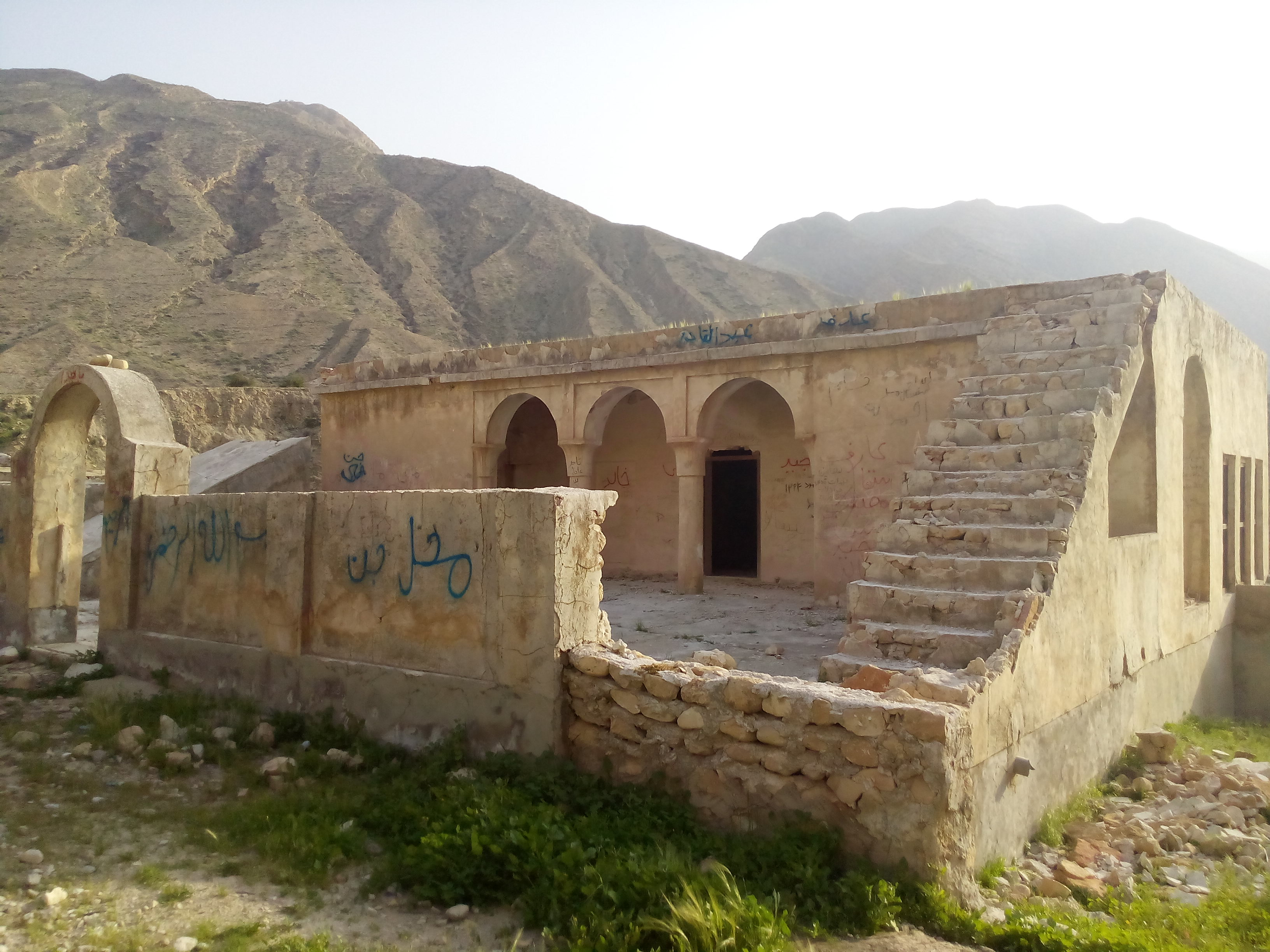 The historical mosque of Bast Qalat